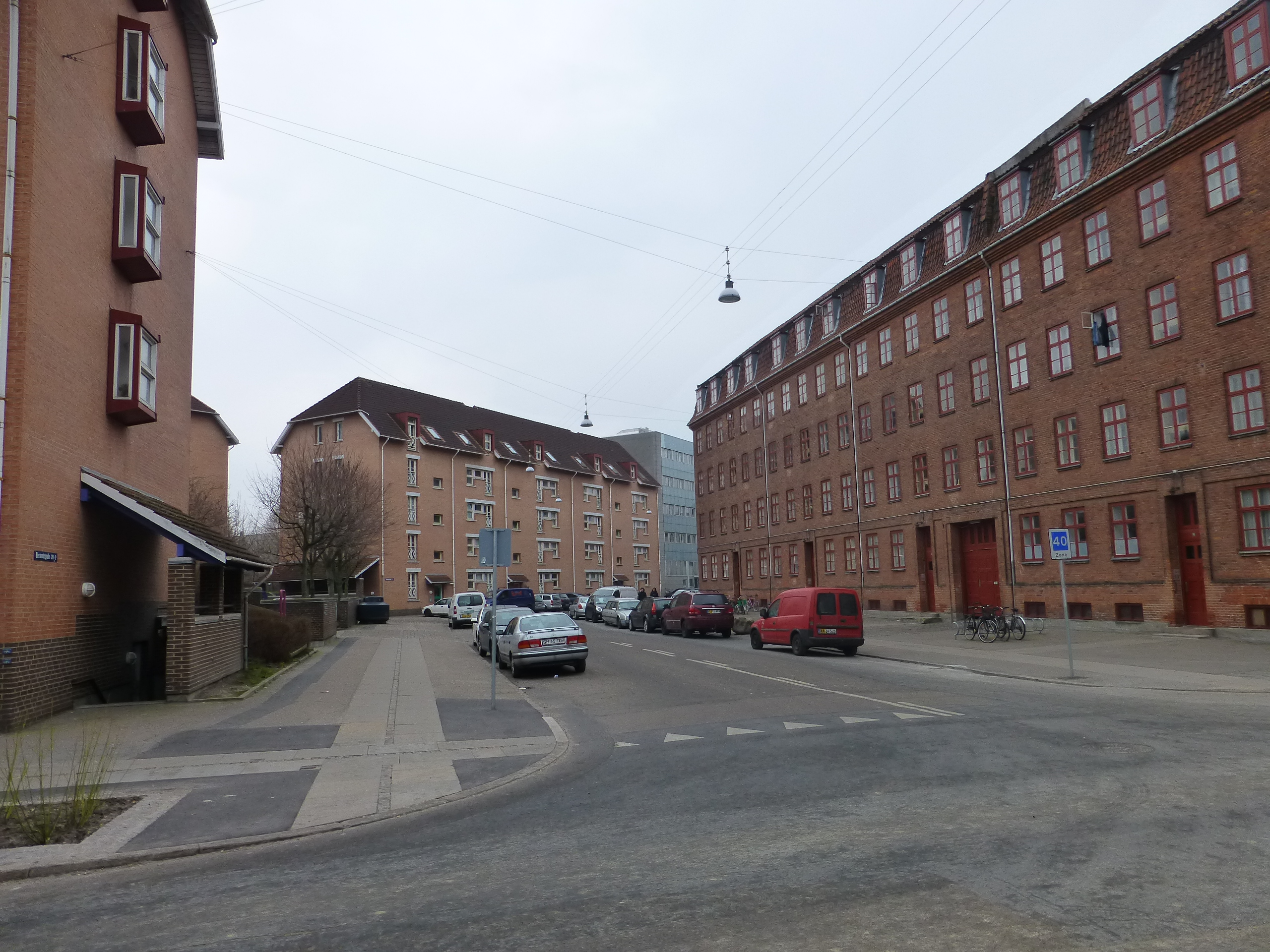 Hermodsgade is a street in Nørrebro in Copenhagen.